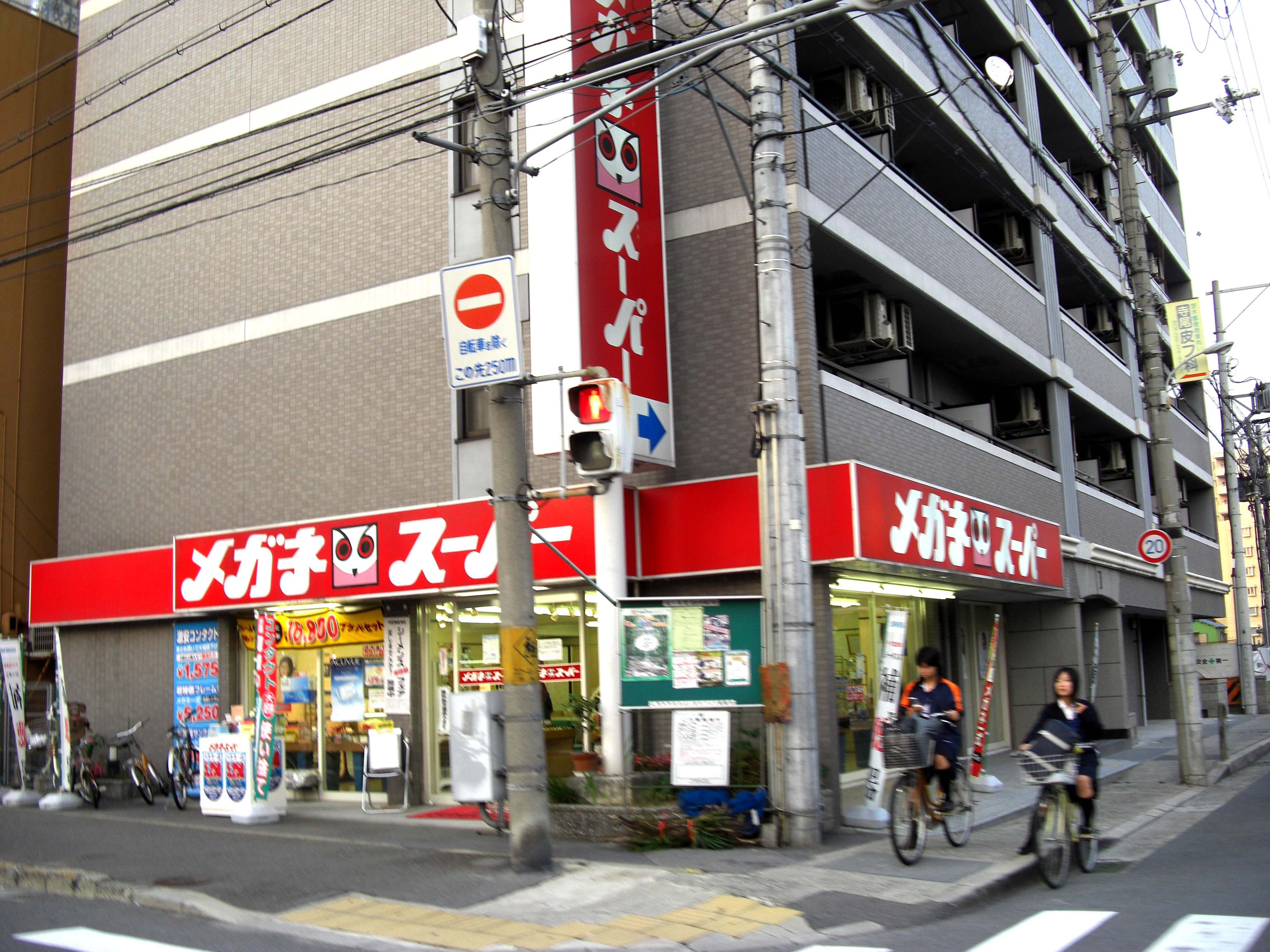 Meganesuper Ibaraki,Matsugamotocho Ibaraki-City Osaka Japan.